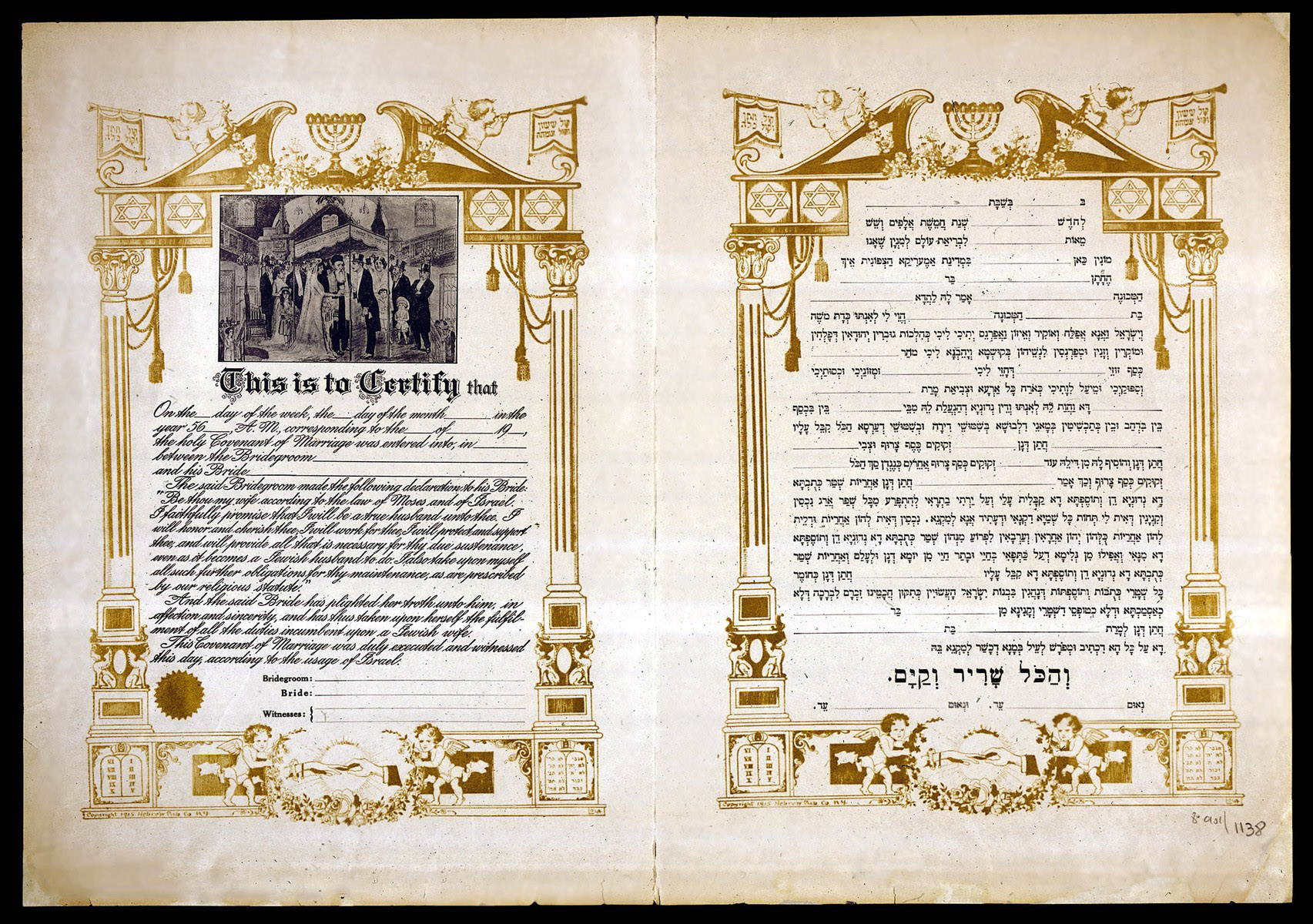 Ketubah from The Ketubbot Collection of the National Library of Israel